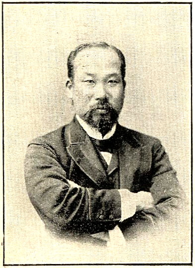 Ōishi Masami(大石正巳) was a Japanese statesman in Meiji era.